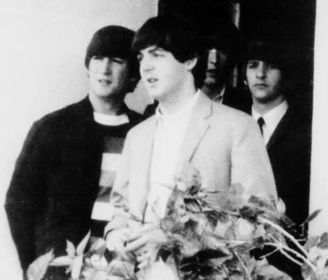 The Beatles in front of their hotel in Key West, Florida